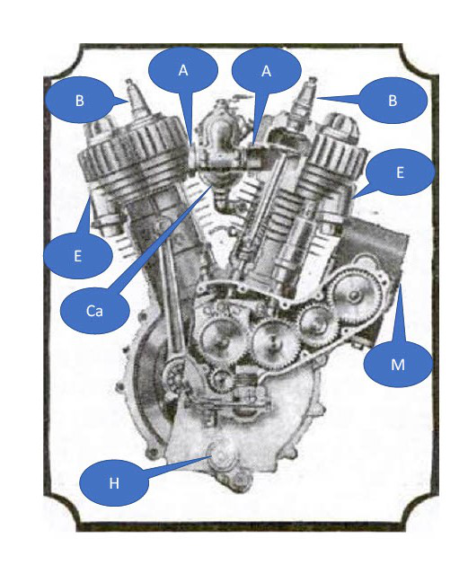 Cutaway view of an Indian Powerplus engine